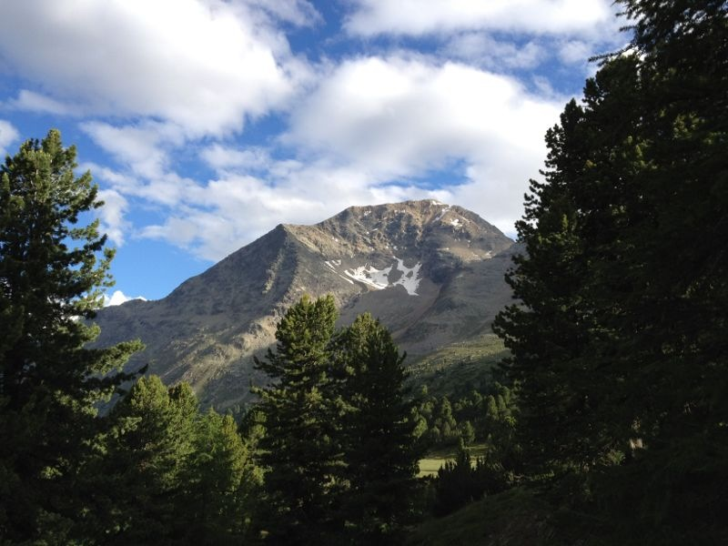 Piz Chalchagn, pic taken from Muottas da Puntraschigna